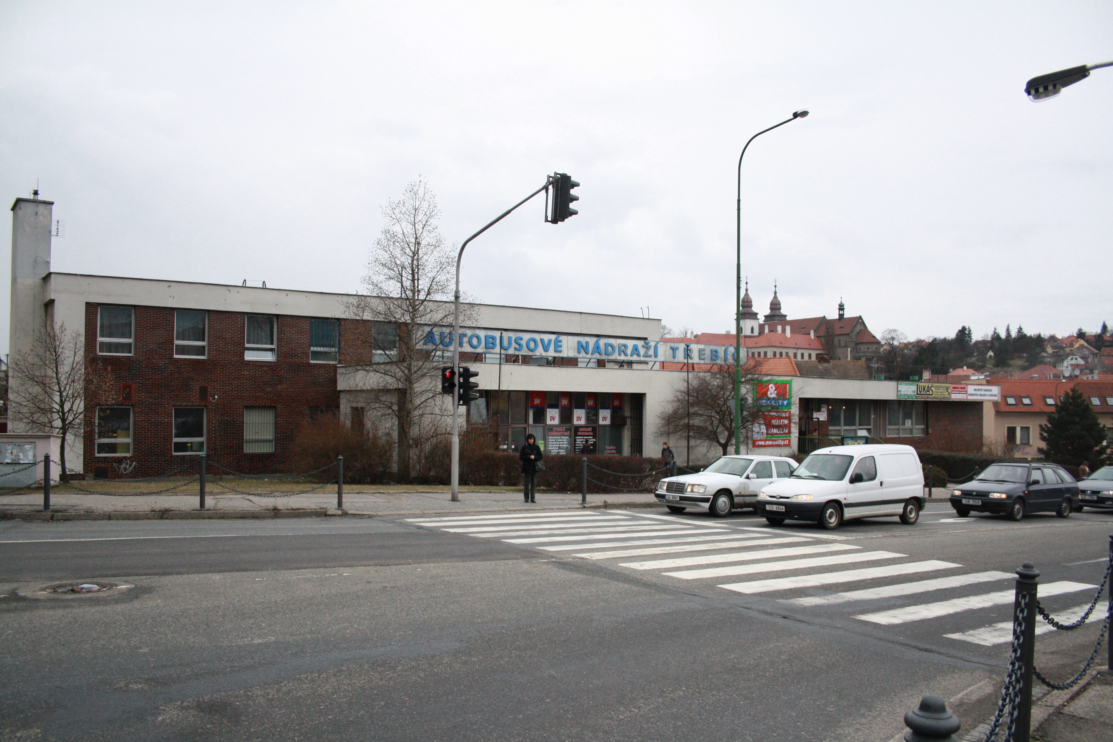 Bus station building in Třebíč, Czech Republic.